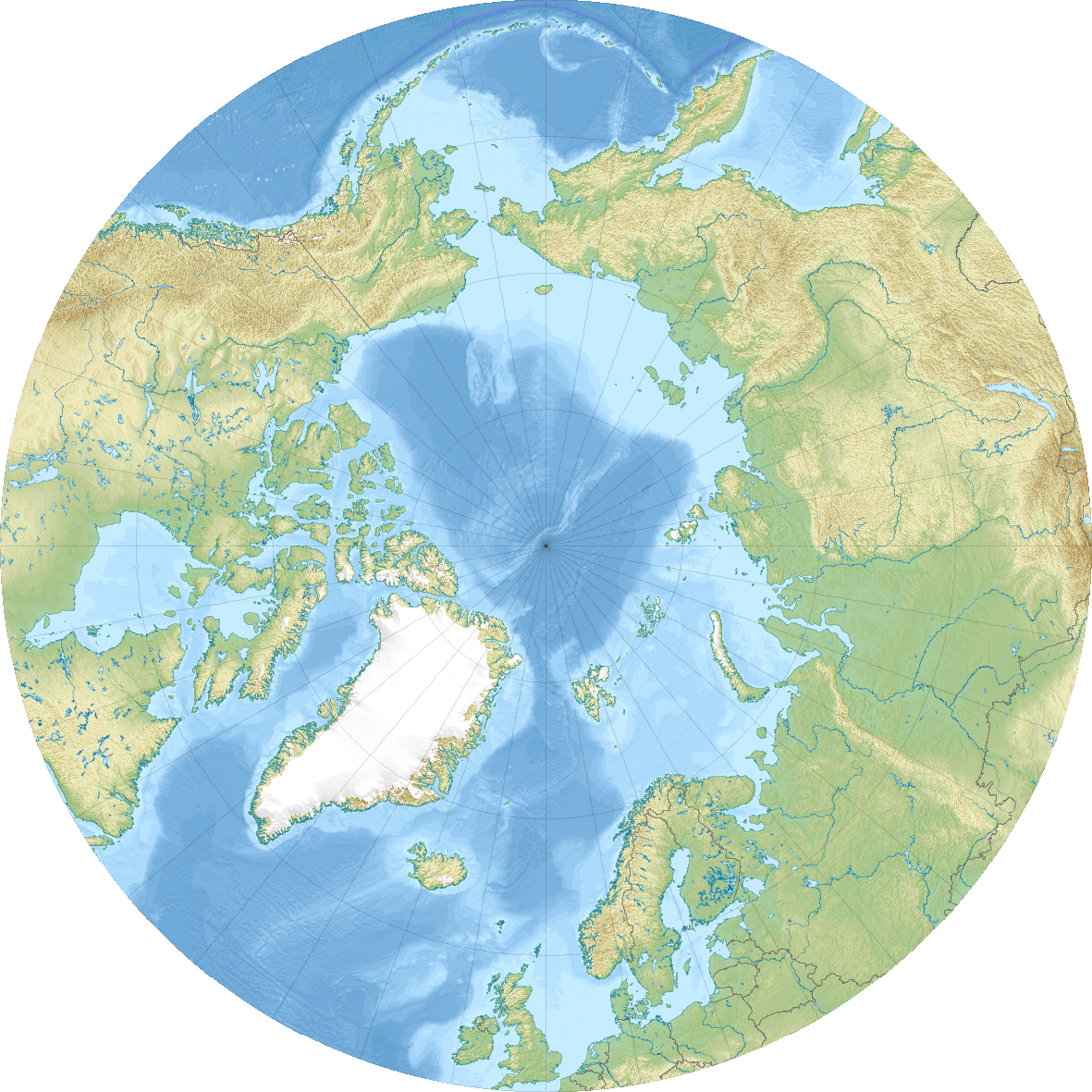 Relief location map of the Arctic Ocean. Projection: Azimuthal equidistant projection. Area of interest: N: 90.0° N S: 50.0° N W: -180.0° E E: 180.0° E Projection center: NS: 90° N WE: 0° E GMT projection: -JE0.0/90.0/20.0c GMT region: -R-45/33.432/135/33.432r GMT region for grdcut: -R-180/180/50/90 Relief: SRTM30plus. Made with Natural Earth. Free vector and raster map data @ .